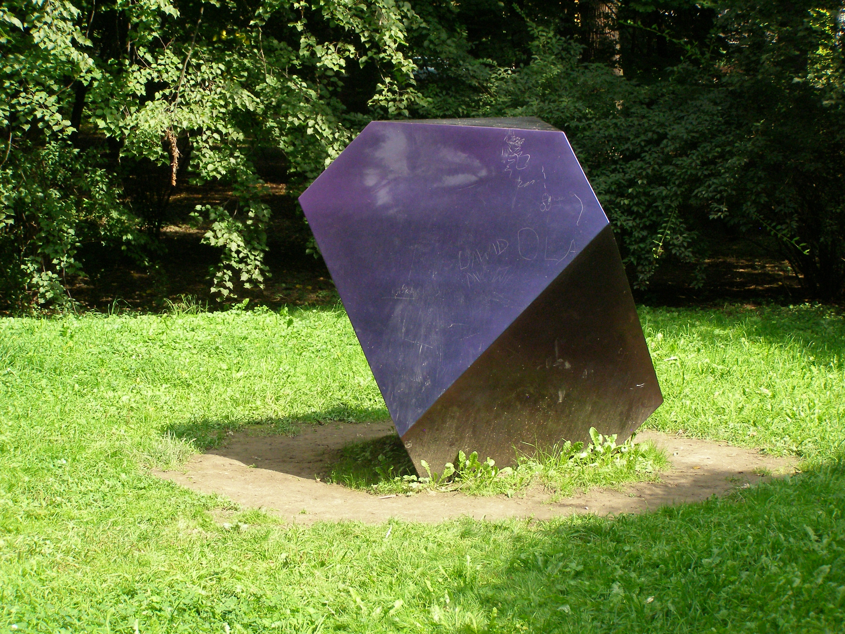 Tarnów - Strzelecki Park - Maurycy Gomulicki: "Melancholy" (2013)